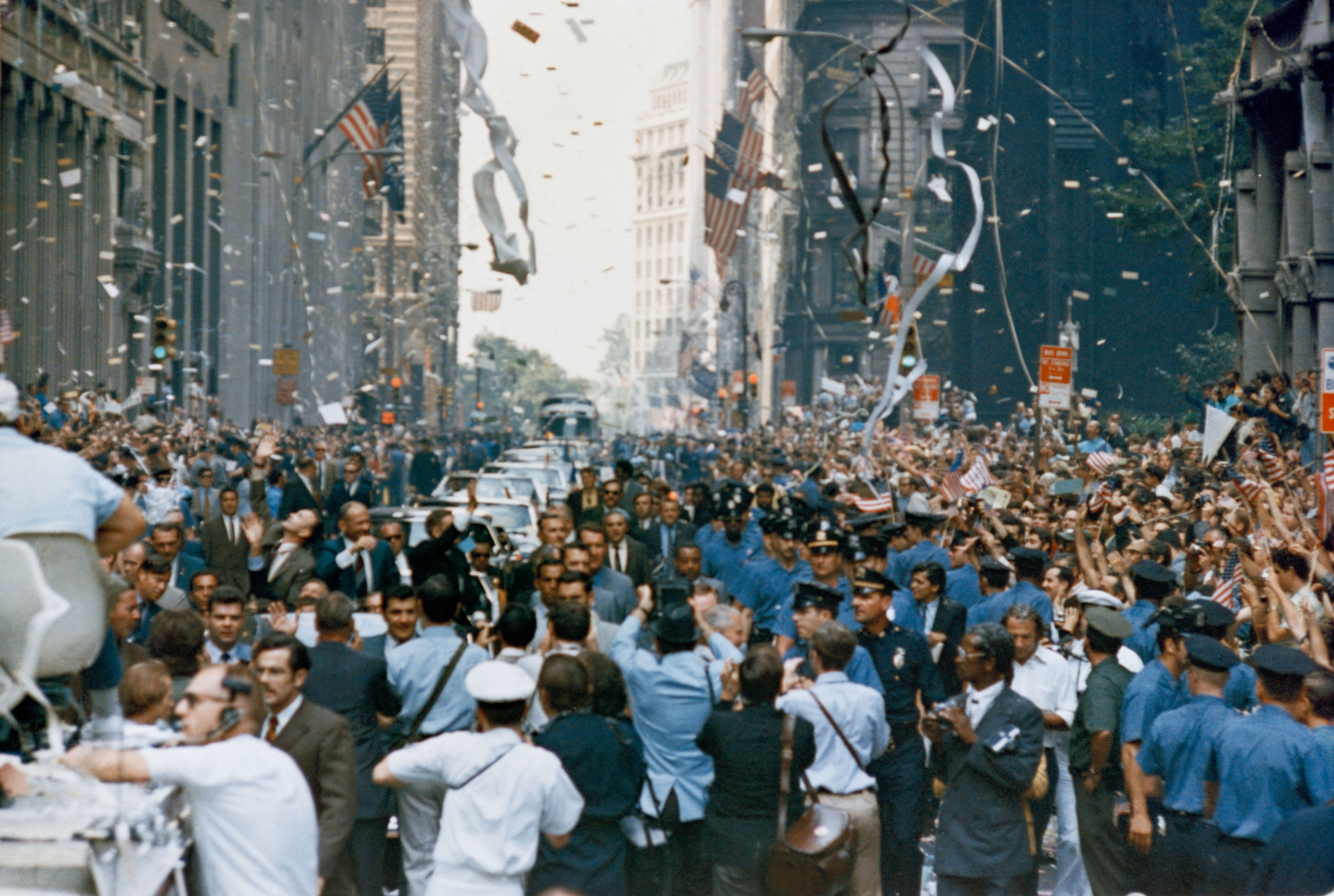 Ticker tape parade for the Apollo 11 astronauts in New York City on the section of Broadway known as the Canyon of Heroes. The photo is taken from near the intersection of Wall Street and Broadway, looking south as the parade proceeds northward. The trees of Bowling Green are visible in the background where Broadway starts.